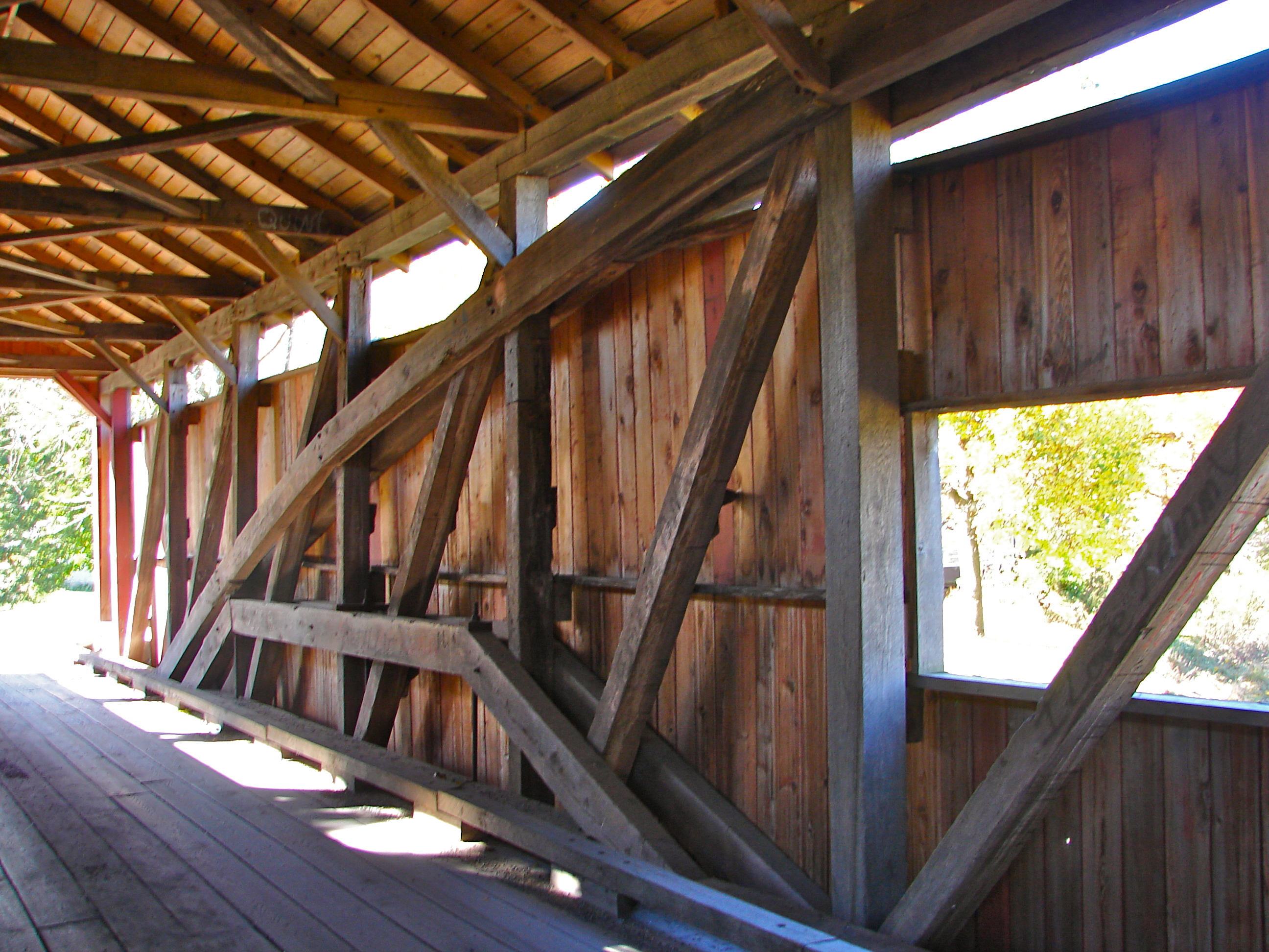 Rice Covered Bridge on the NRHP since August 25, 1980. South of Landisburg on Legislative Route 50023 (Kennedy Valley Rd., just south of Water Street) in Tyrone Township, Perry County, Pennsylvania. According to the NRHP nomination - Rice Bridge has a unique combination of Burr Arch-Queen Post construction (shown here), was built in 1869, and is 123 feet in length.